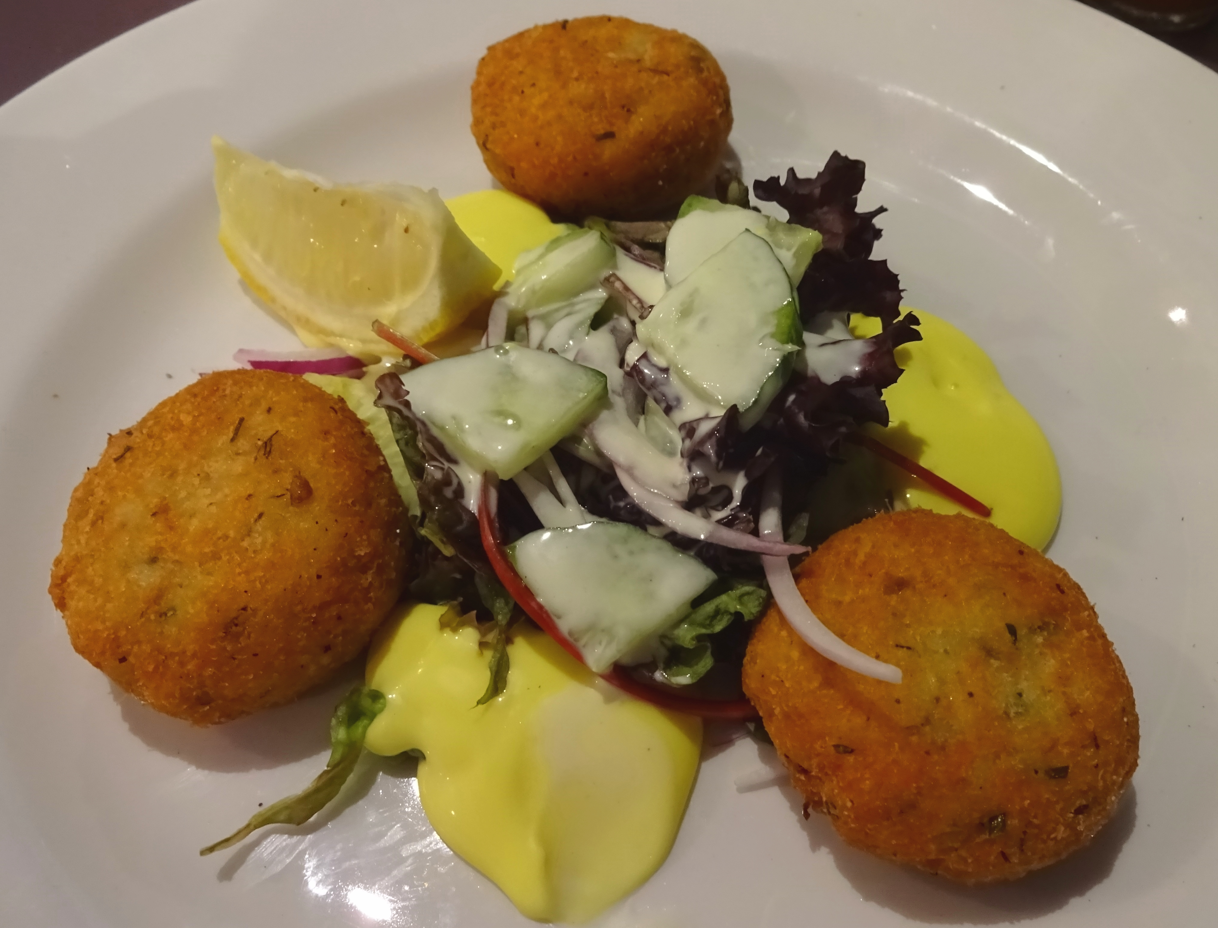 Fish Cakes with mixed leaves served with a light lemon and saffron mayonnaise. Photographed in Mussel Inn in Glasgow.